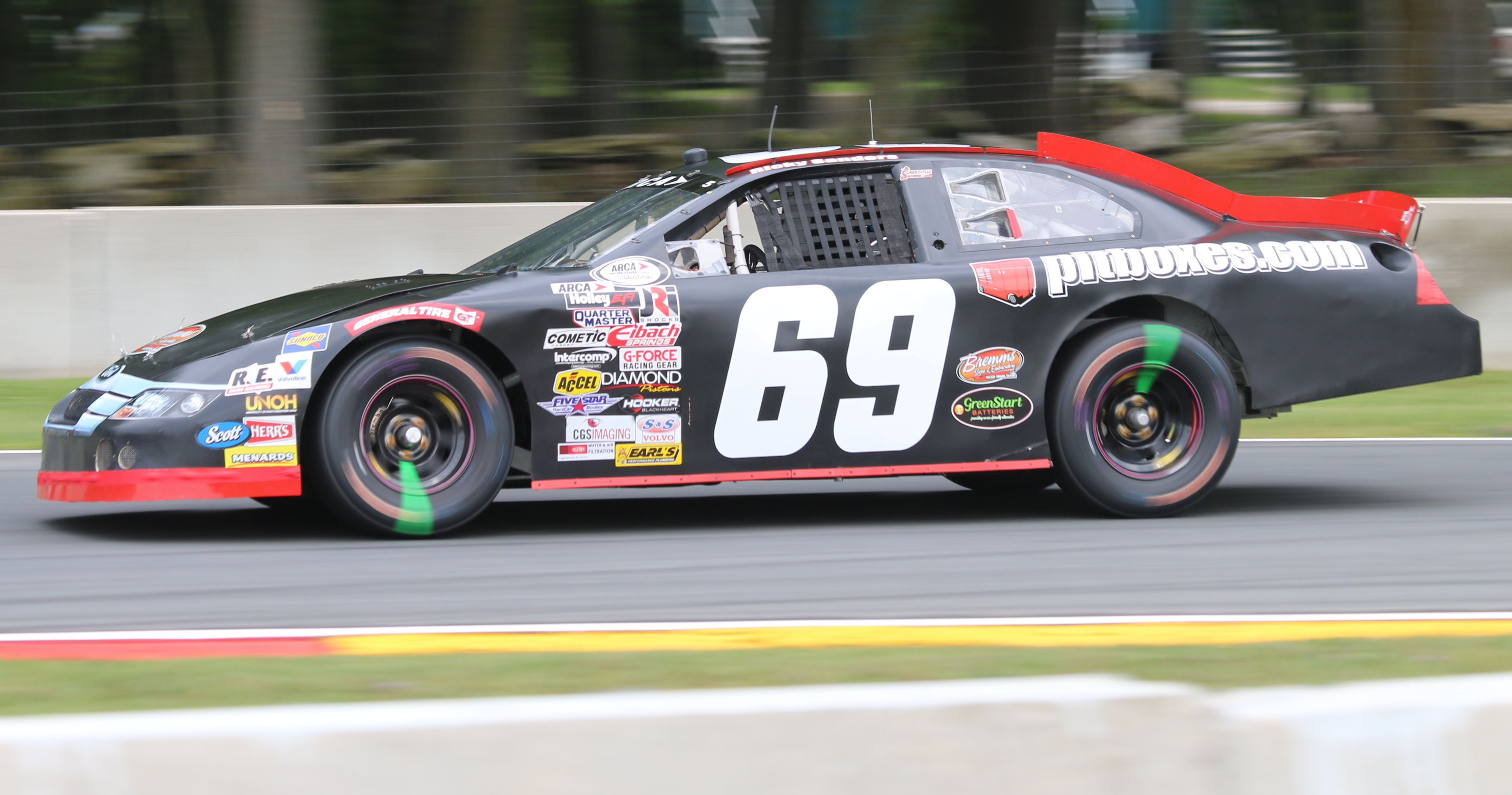 The ARCA Racing Series car of Ricky Sanders at the 2017 Road America 100 race.